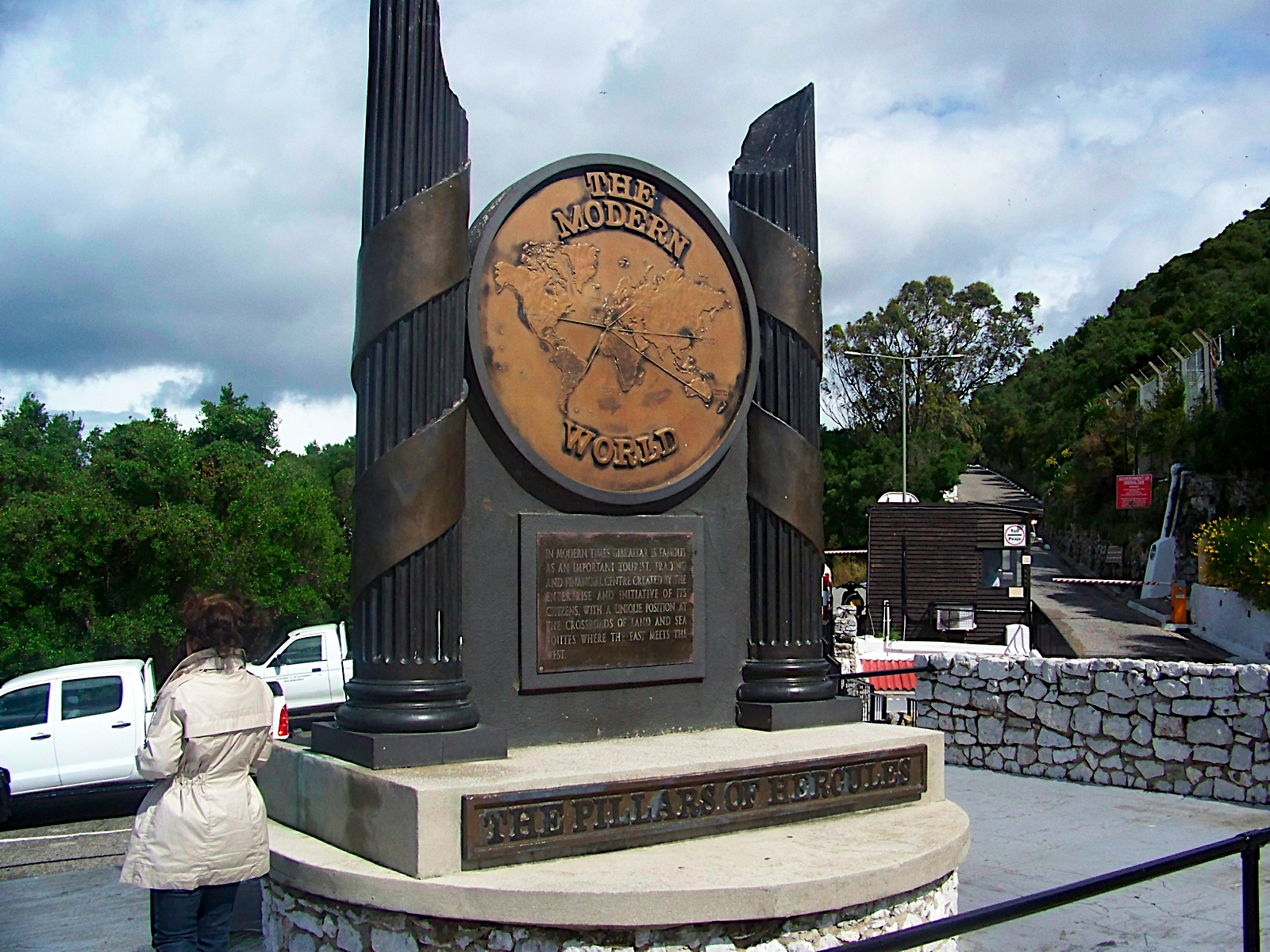 Pillars of Hercules Monument, Jew's Gate, Gibraltar.